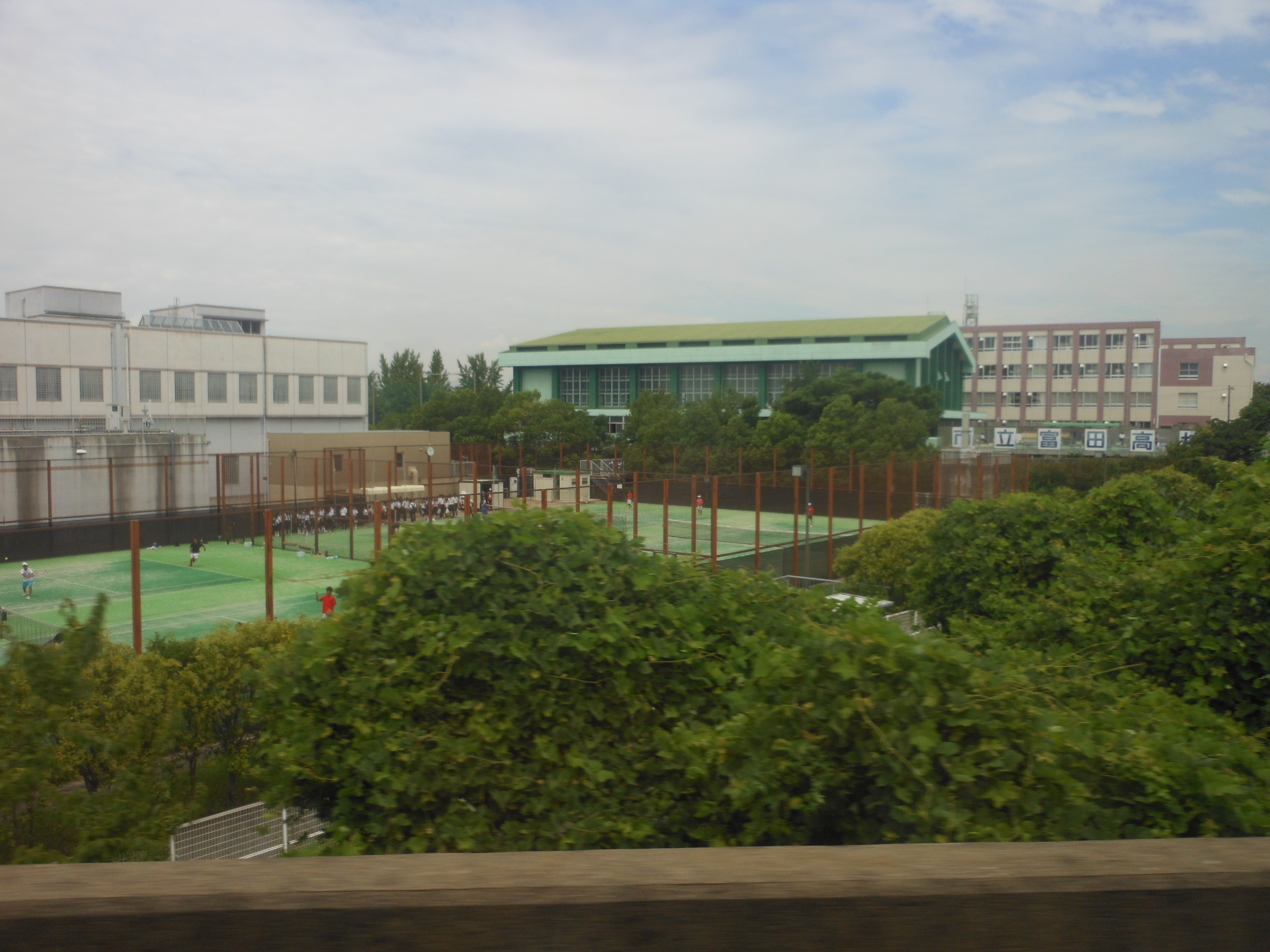 This is the Nagoya City Tomida High School in Nakagawa, Nagoya, Aichi, Japan.